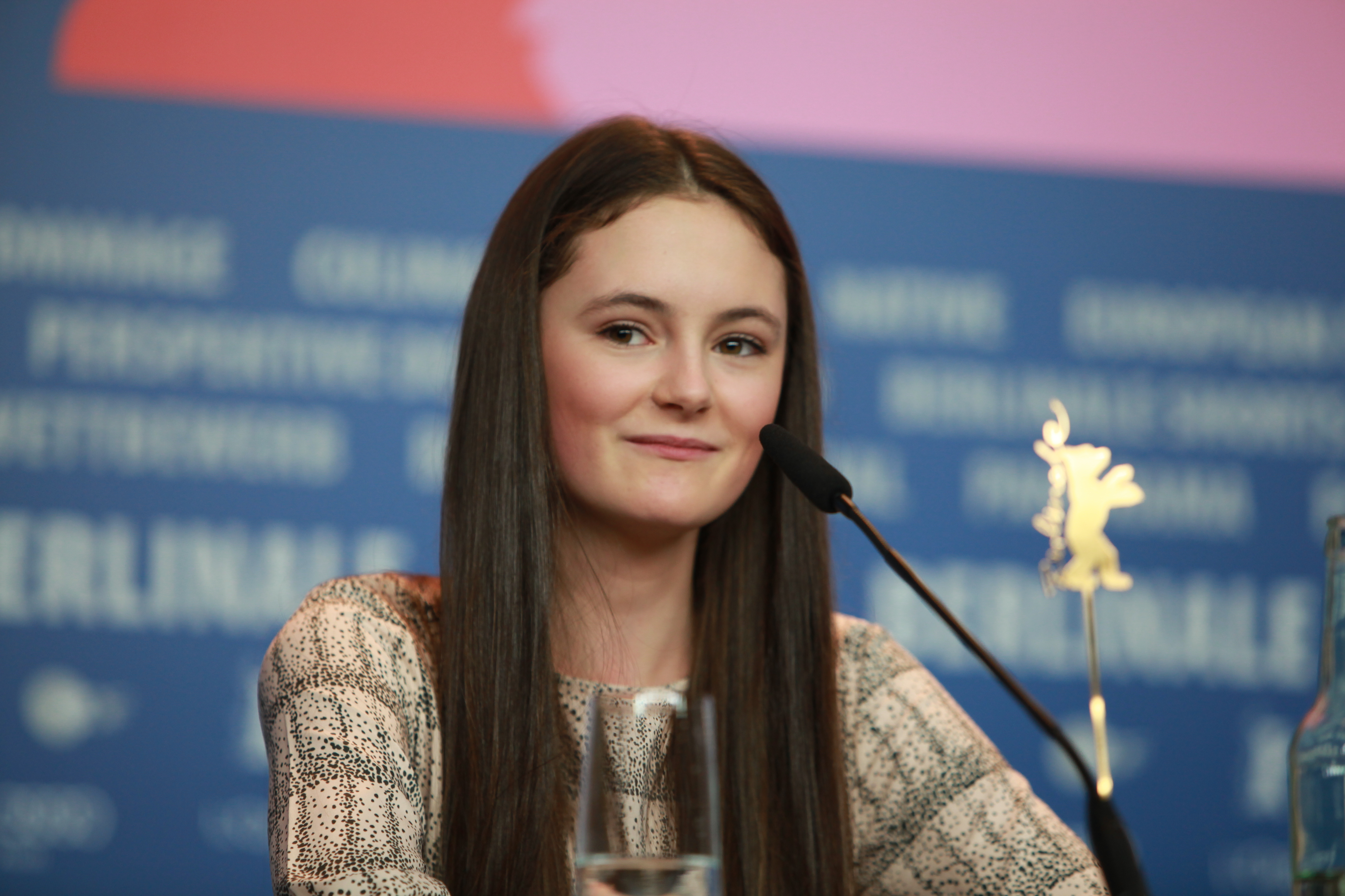 German 14-year-old actress Lea van Acken at Berlinale on 9 February 2014. Van Acken presented the competition film "Kreuzweg", in which she embodies the character of "Maria".